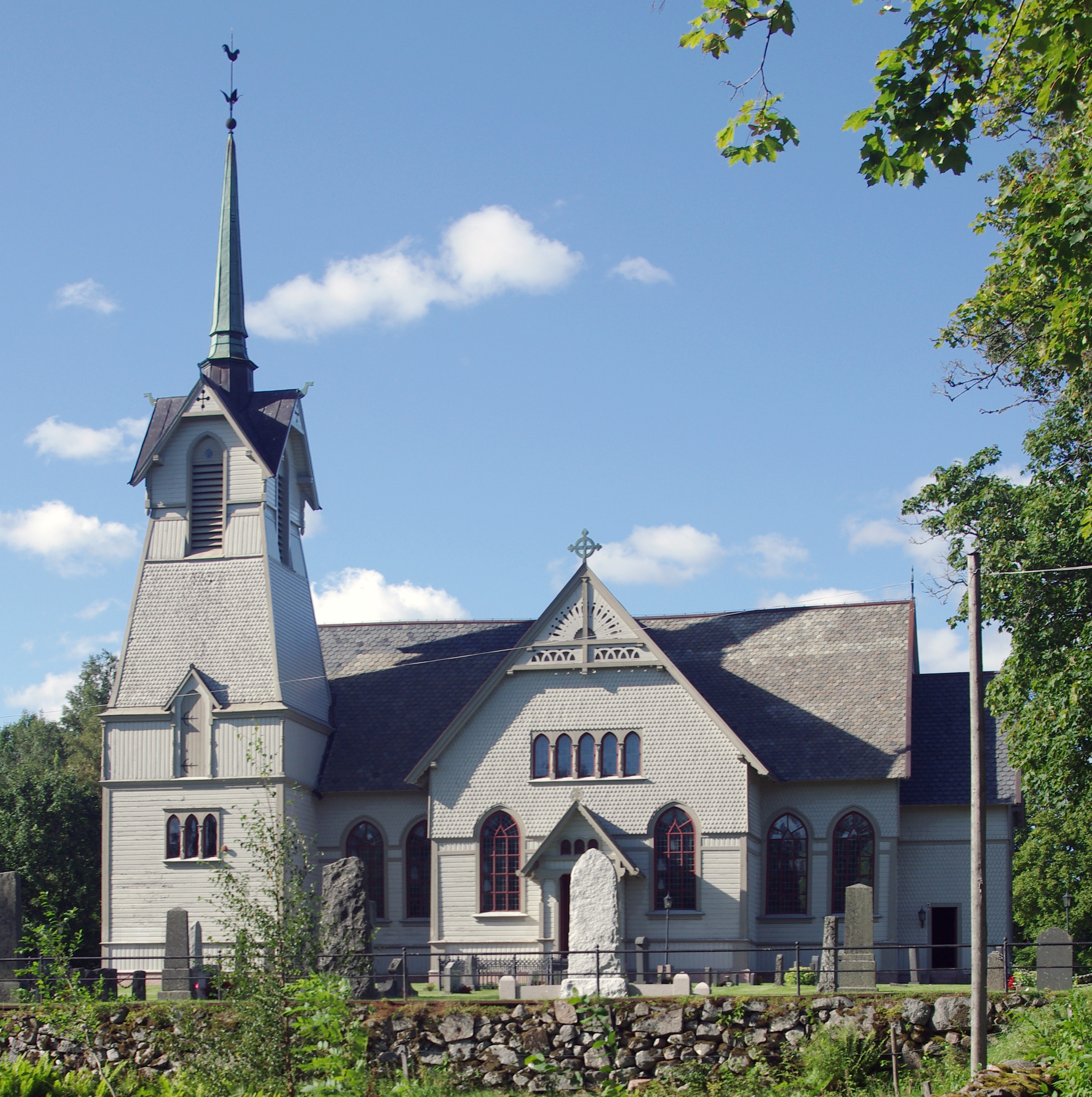 Bjurbäcks kyrka (swedish: church of Bjurbäck), Västergötland, Sweden.